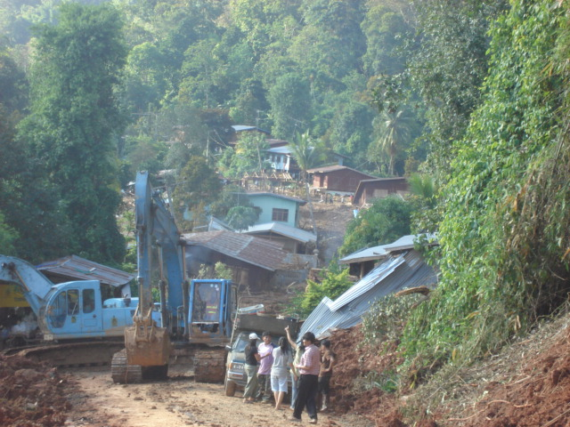 Mudflow.Laplae,Uttaradit, Thailand.